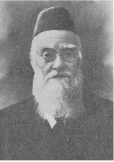 Yehuda Leib Tsirelson (1859-1941); chief rabbi of Bessarabia; killed during the bombing of Kchinev by the Luftwaffe